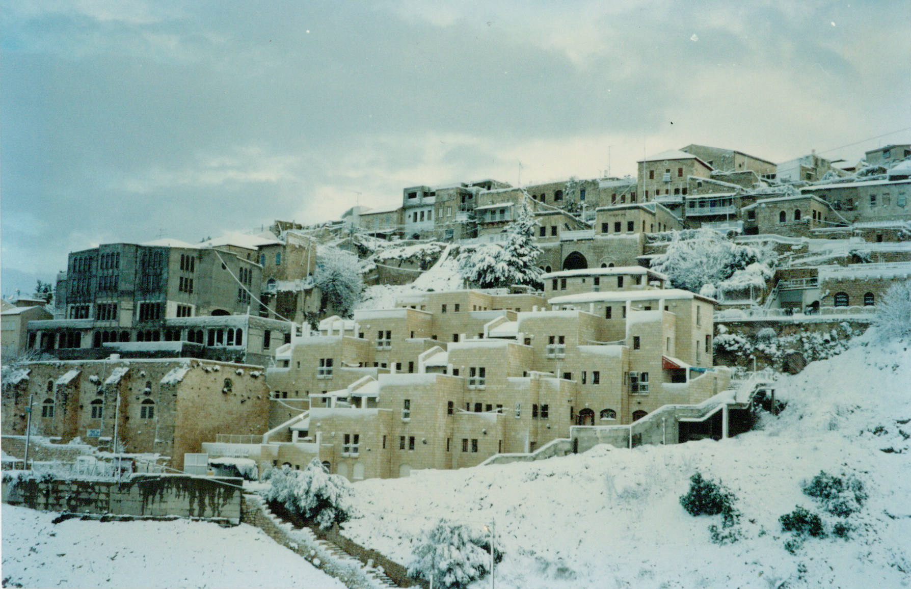 The picture you can see the snowy winter appearance, which paint the city of Safed in white.